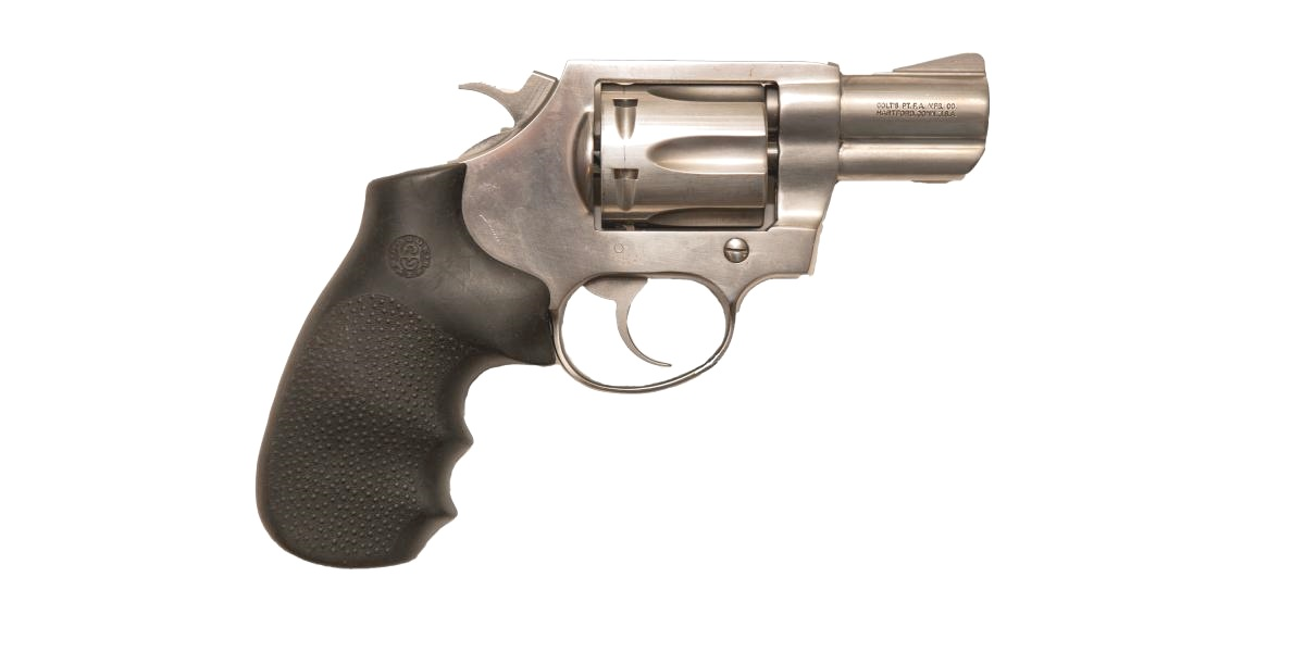 Picture of a Colt Mag Carry. Caliber: .357 Cal. (Magnum)